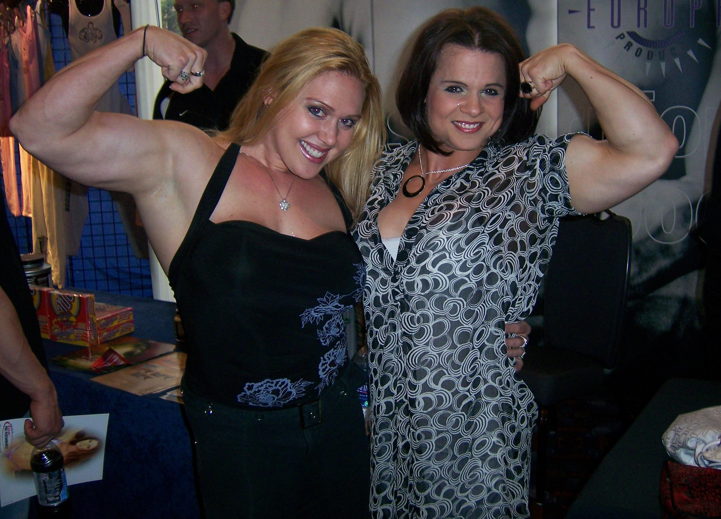 Colette Nelson and Elena Seiple at the NPC in 2007